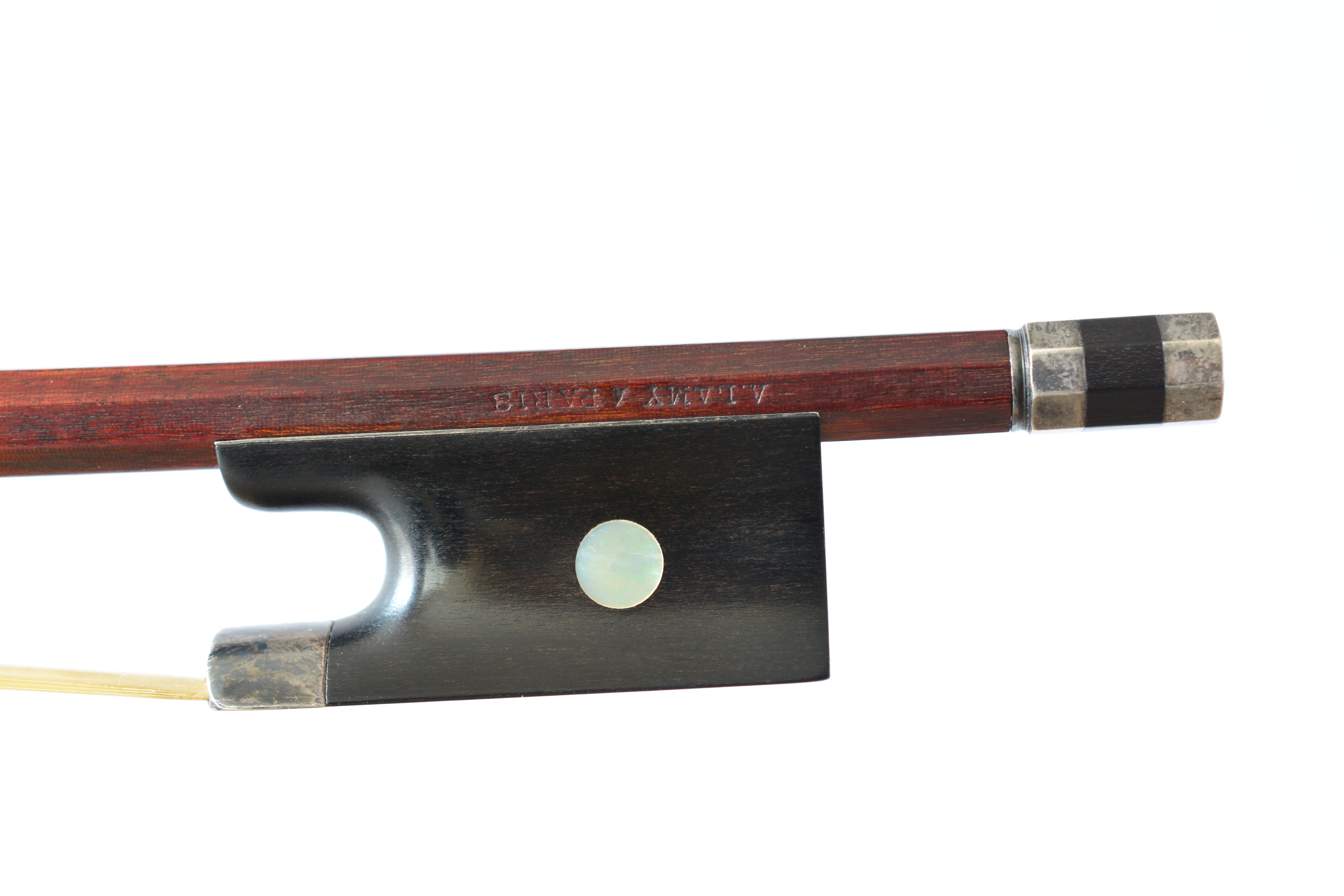 Joseph Alfred Lamy frog